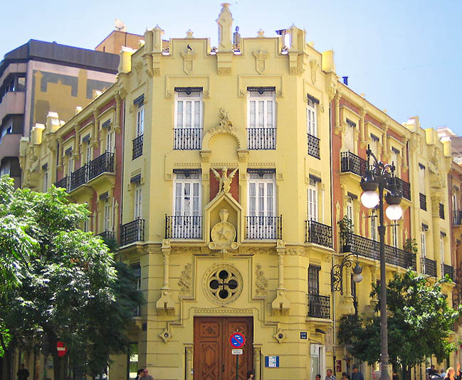 Railway house, (Edifici del Nord) in València, former headquarters of the "Nord" railway company.